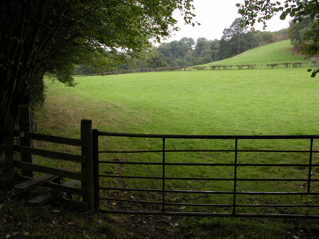 Farmland to the south of Neen Sollars The course of the old railway line is behind the hedge on the left.